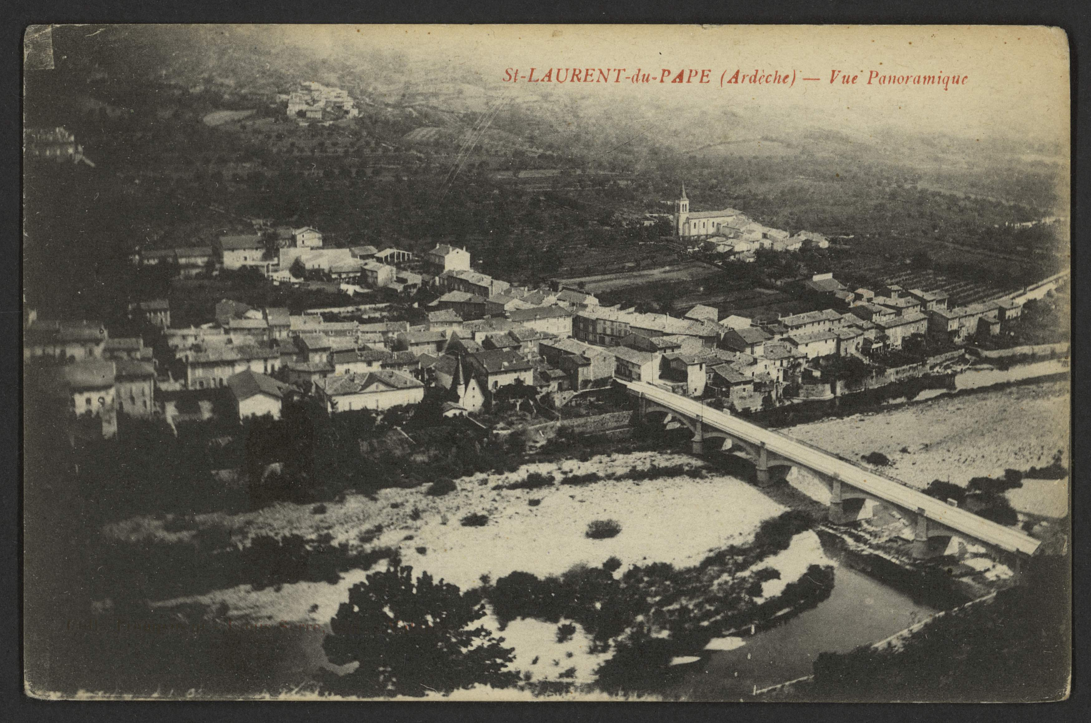 Ponts and viaducs Ardèche